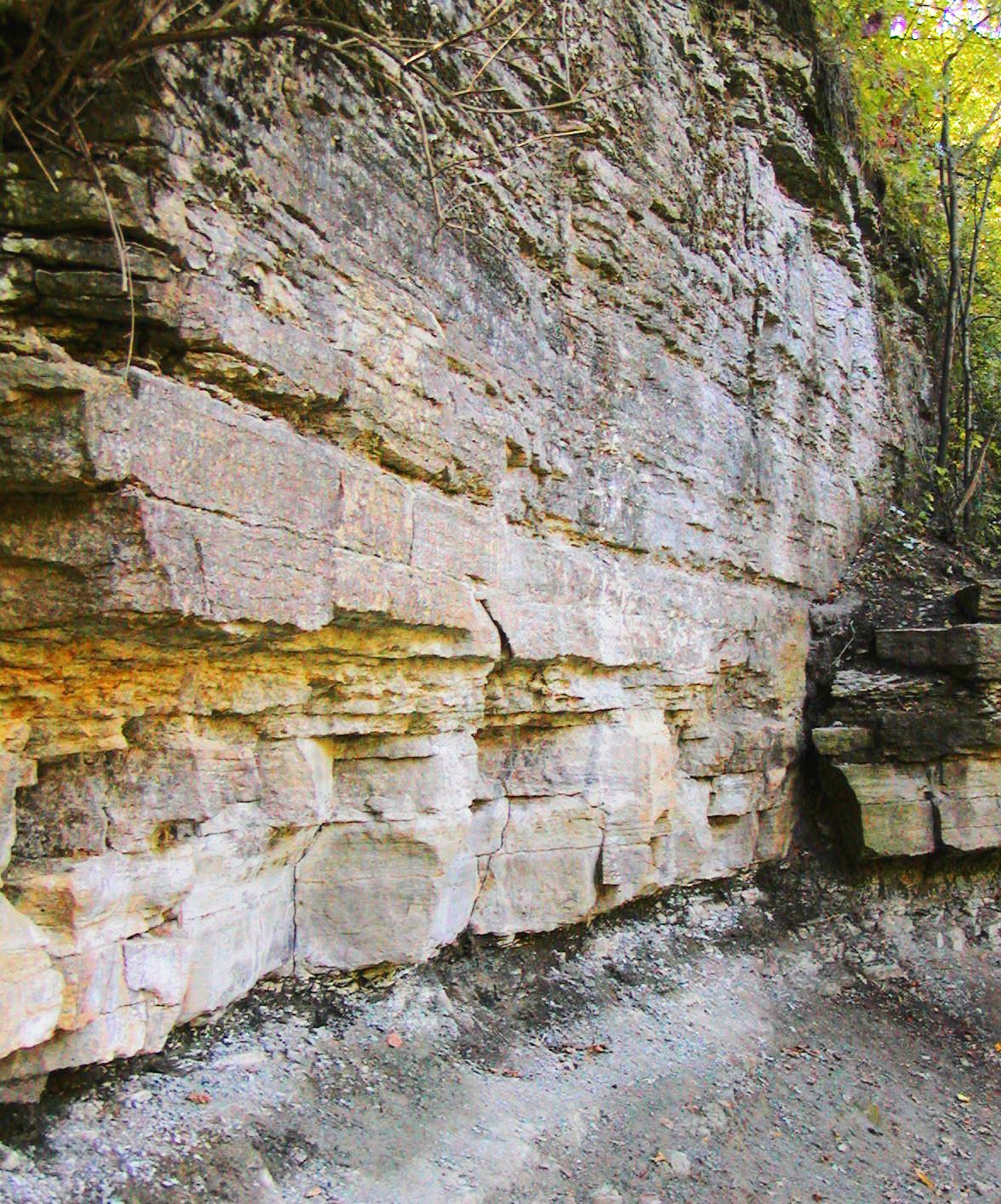 Hard, thin layer of Platteville limestone overlaying the soft St. Peter sandstone, Minneapolis, MN.